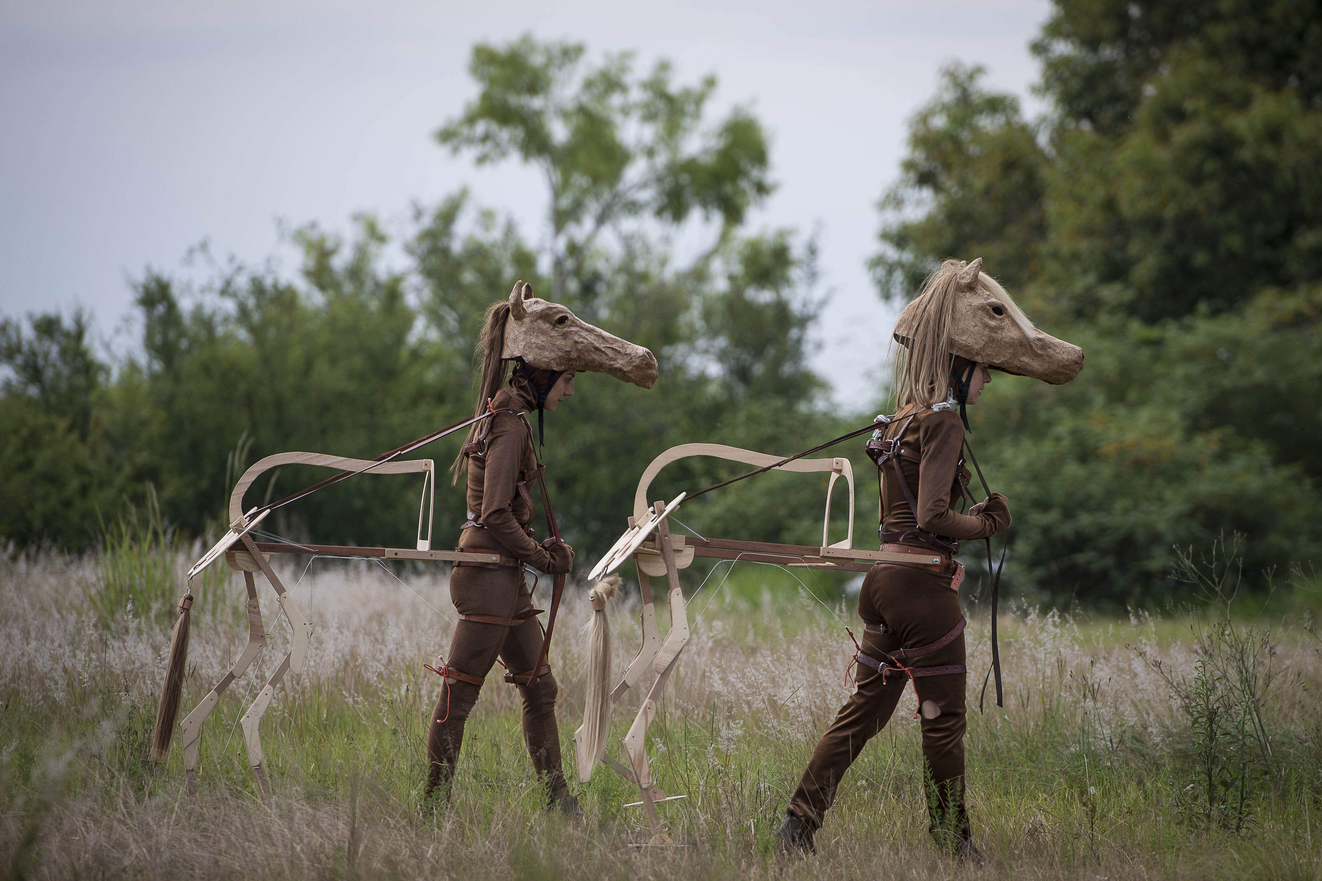 Eduardo Navarro, Horses Do Not Lie at 9th Bienal do Mercosul, Porto Alegre, 2013. Veronica Flom.